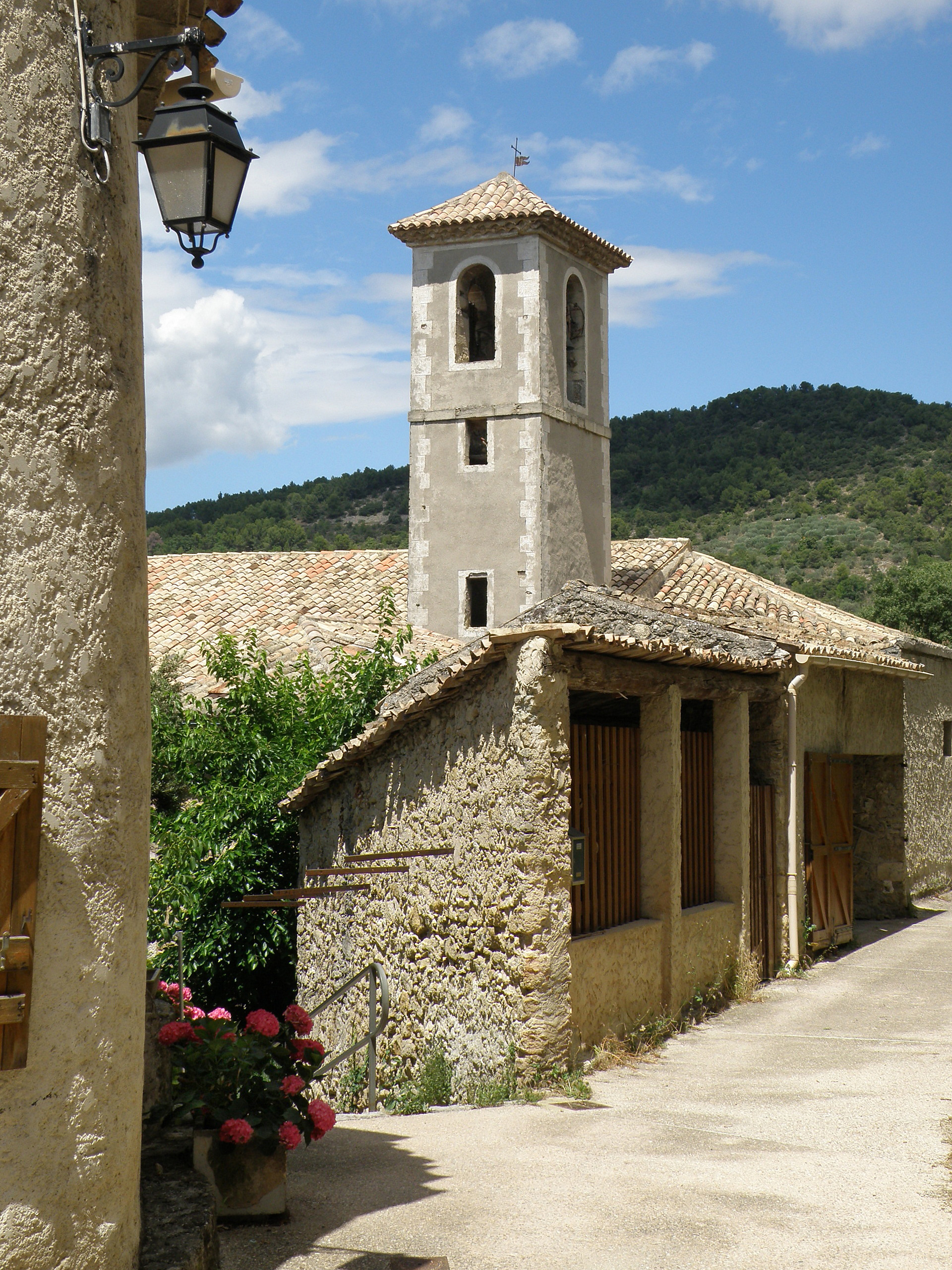 Mollans-sur-Ouvèze (Drôme, France). Église Saint-Marcel.